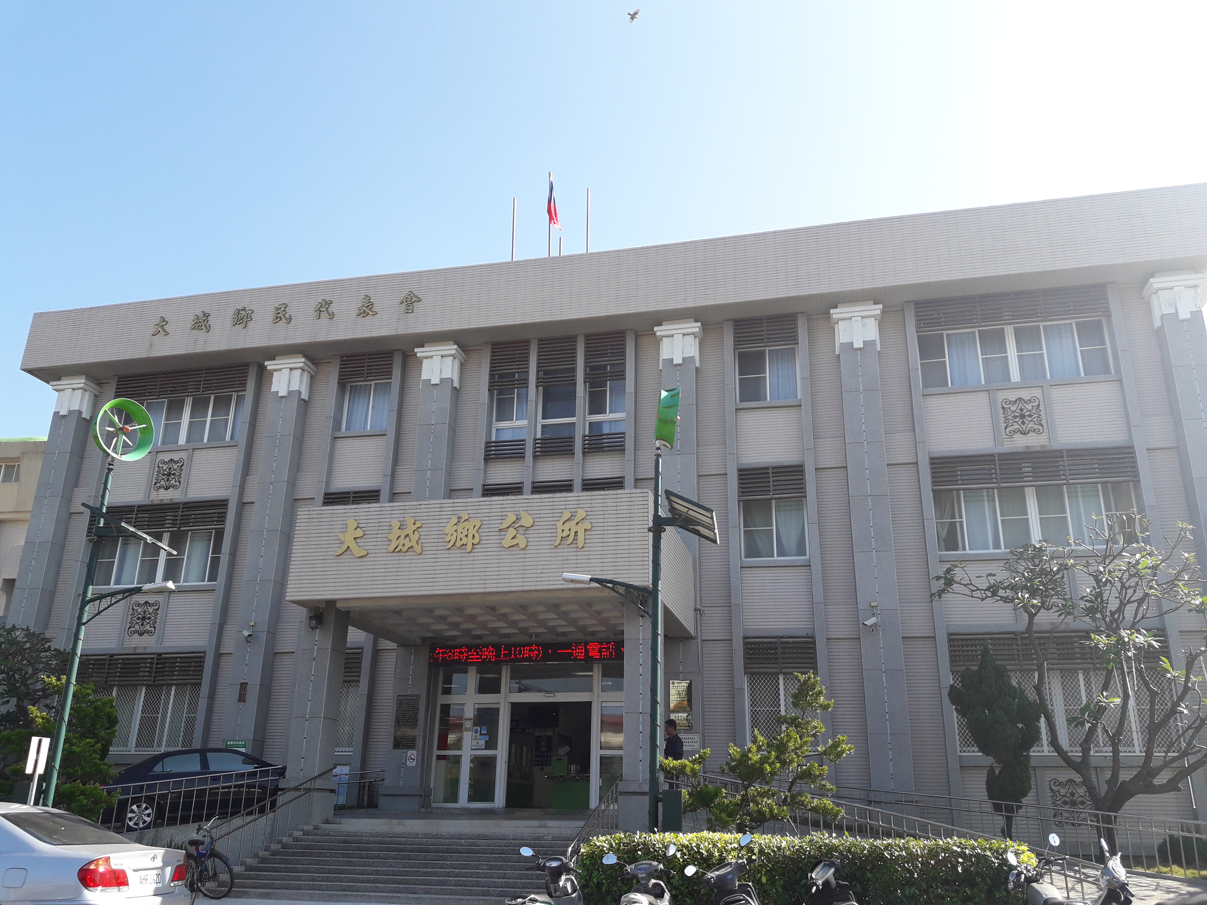 Dacheng Township Office Building close-up.